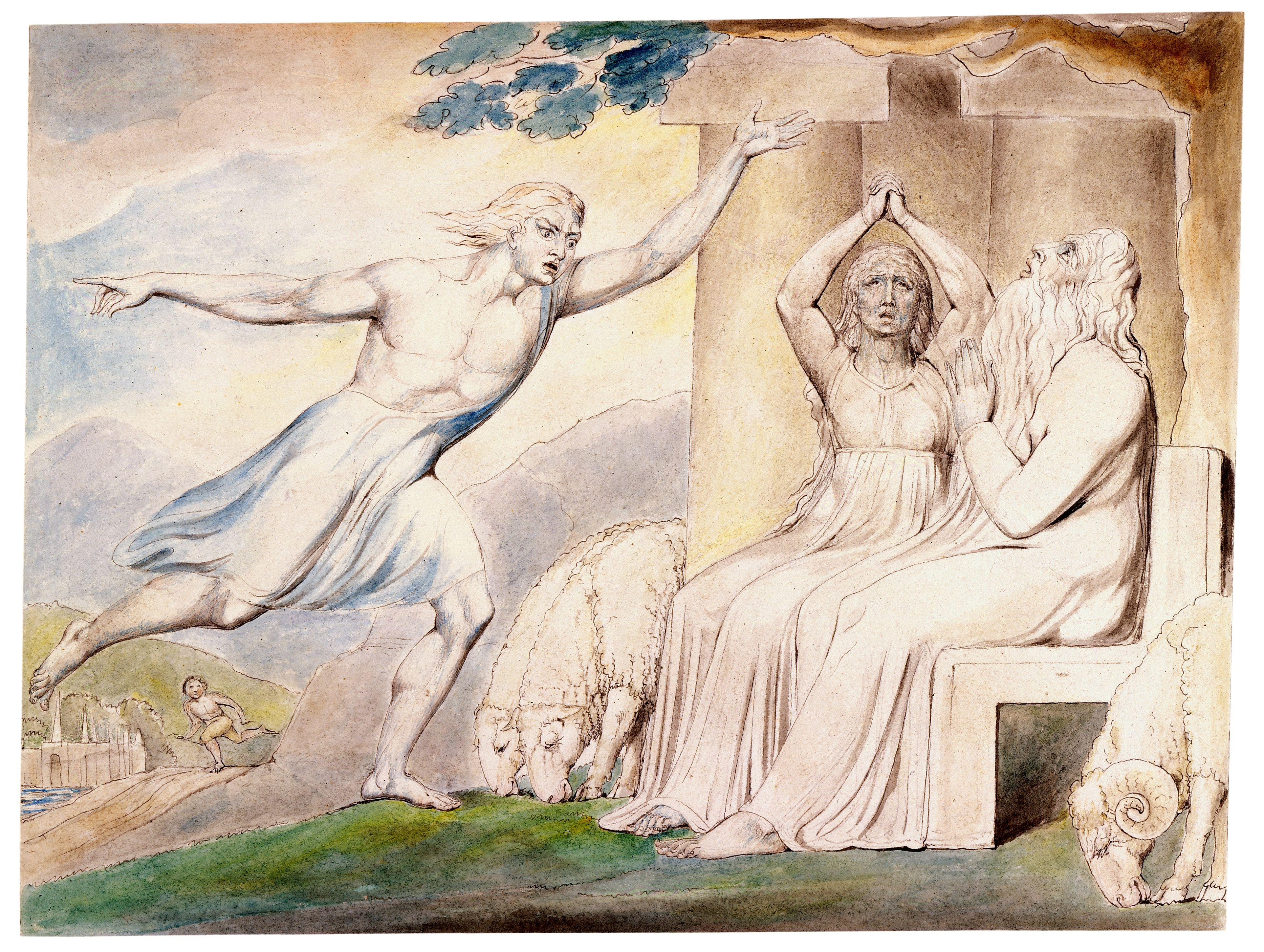 The Messengers Tell Job of His Misfortunes, by William Blake.